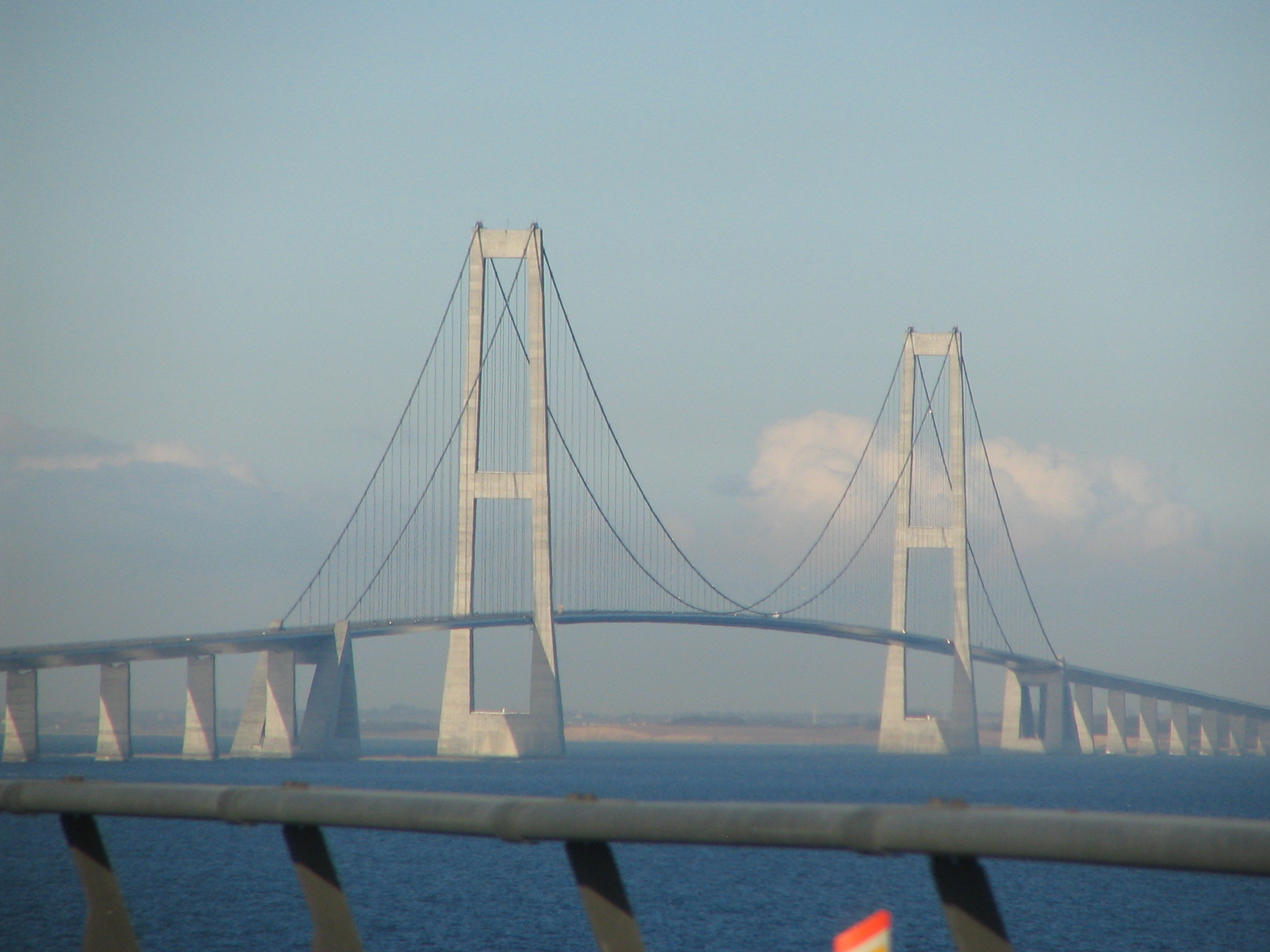 Storebæltsbroen (Great Belt Fixed Link, Denmark), the high bridge from the low bridge.